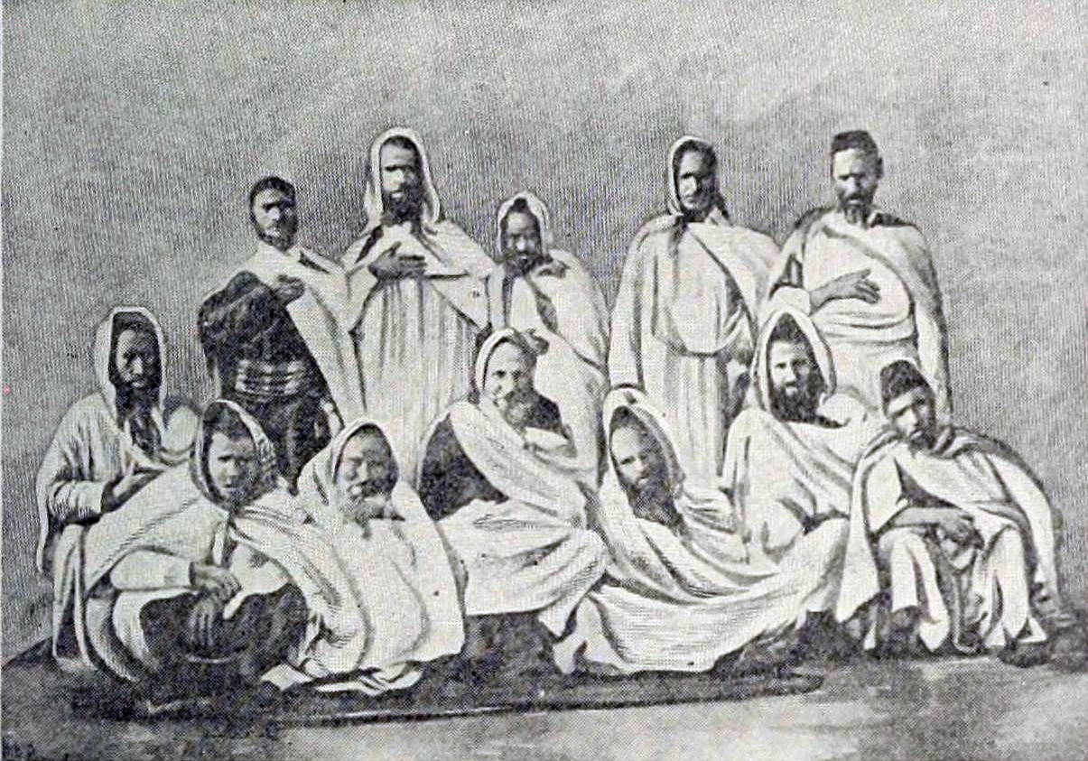 Berber Jews from the Atlas Mountains, Morocco, c. 1900. From the 1901-1906 Jewish Encyclopedia, now in the public domain.